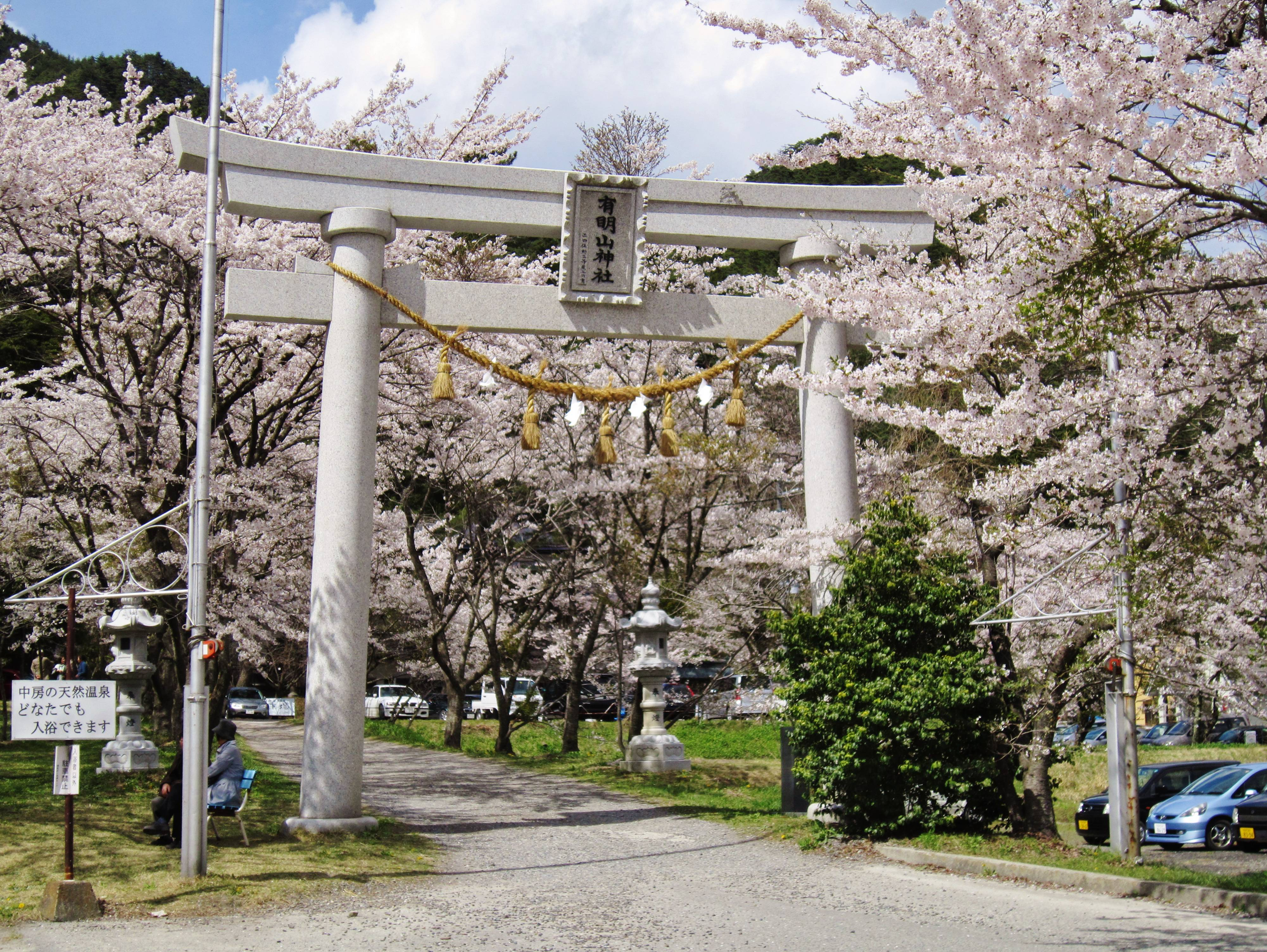 Mount Ariake Shrine torii.